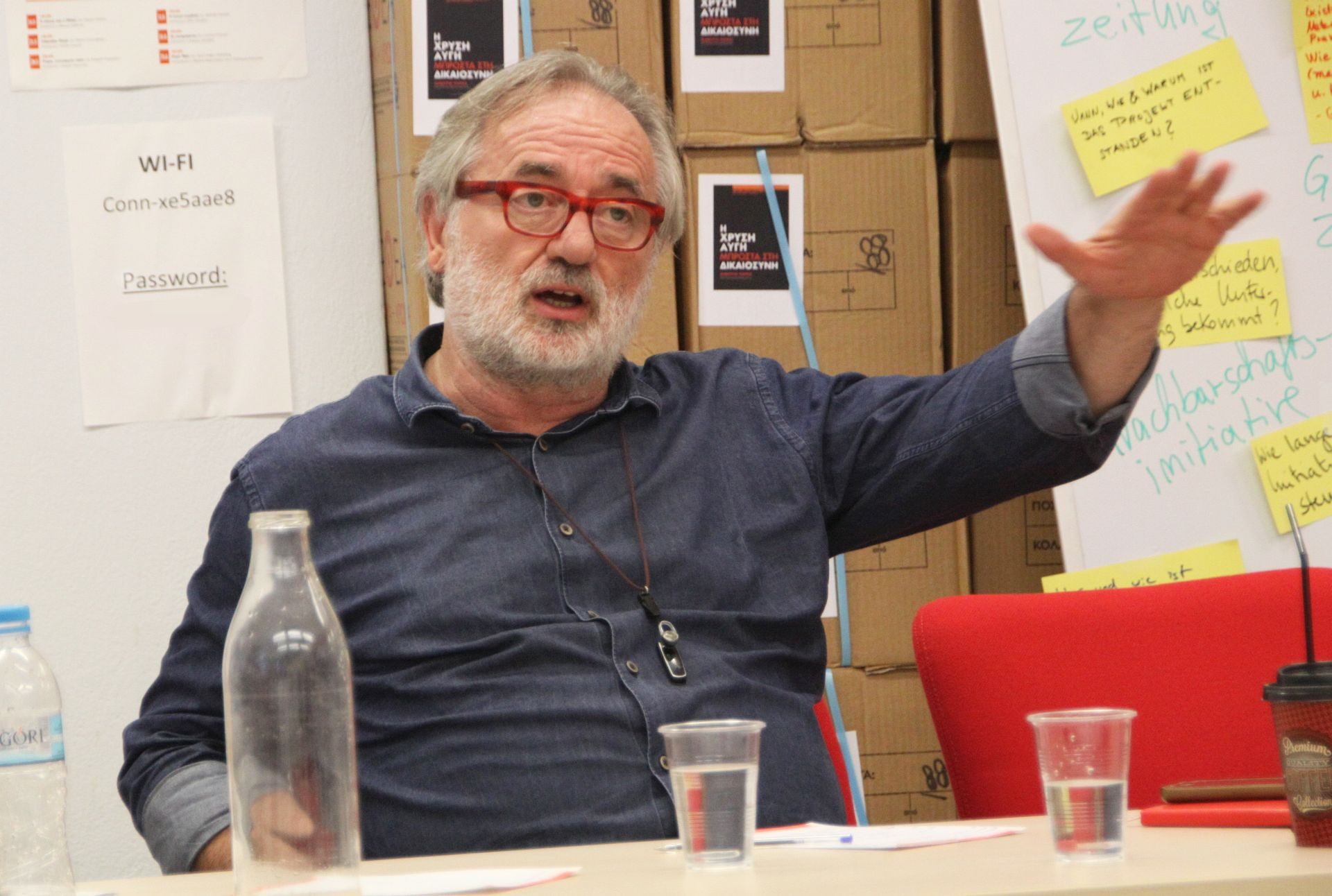 Giorgos Chondros, Greek politician of the party Syriza